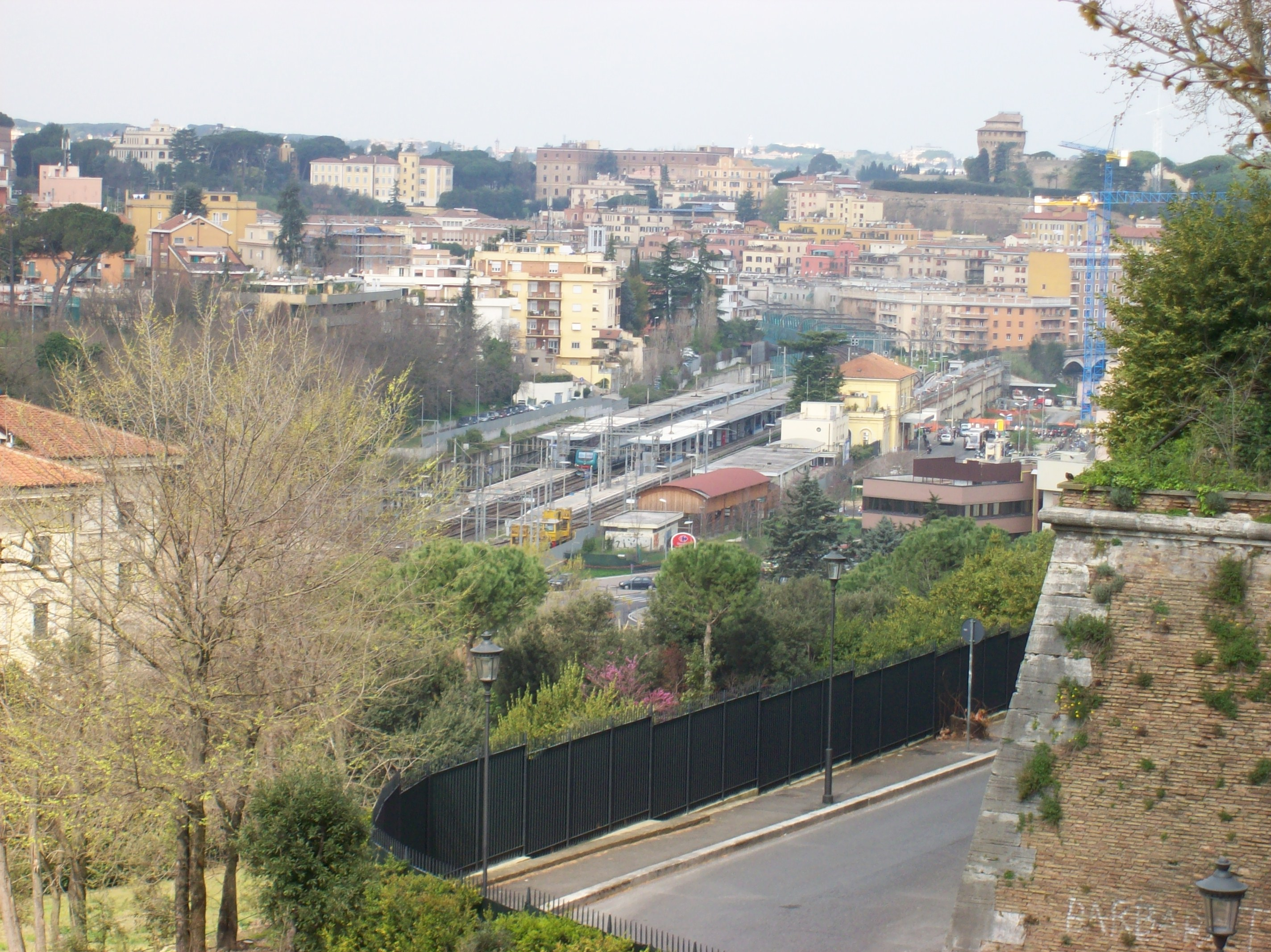 Roma - San Pietro train station seen from atop of Gianicolo